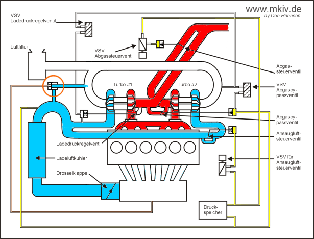 Toyota Supra MKIV Sequentielles Turboladersystem 007